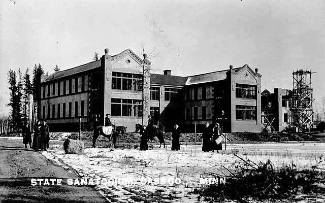 Postcard postmarked 1910 showing the construction of the Minnesota State Sanatorium for Consumptives in Cass County Minnesota, United States. Photo by Charles J. Hibbard (1855-1924)